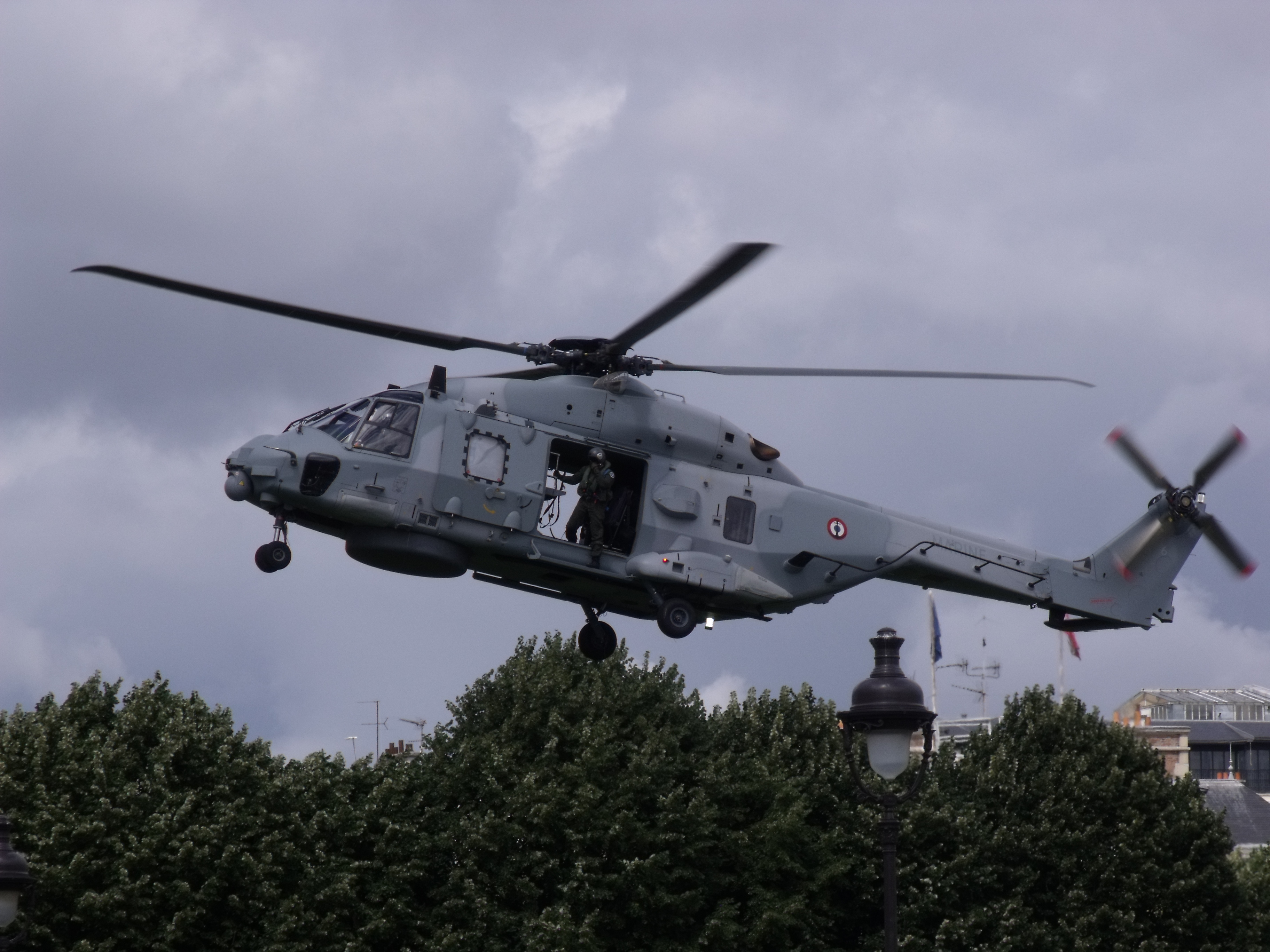 Landing near Invalides War museum.